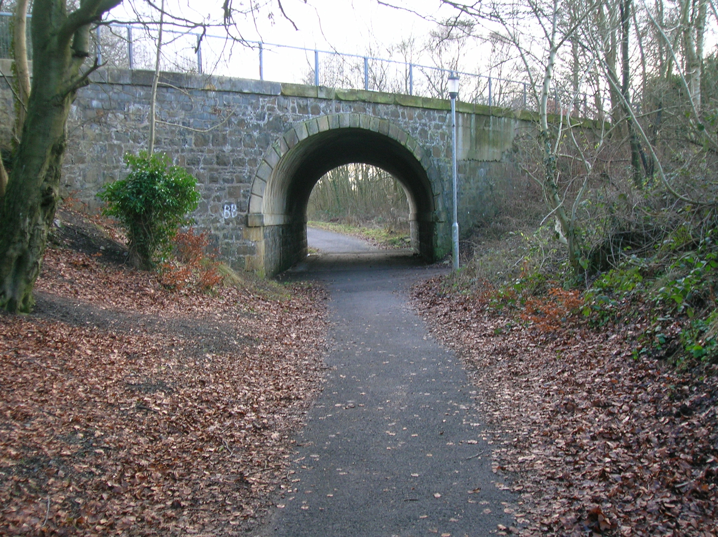 Old Perceton railway Branch overbridge near Lawthorn, Irvine, North Ayrshire, Scotland. Site of the old Littlestane Loch.